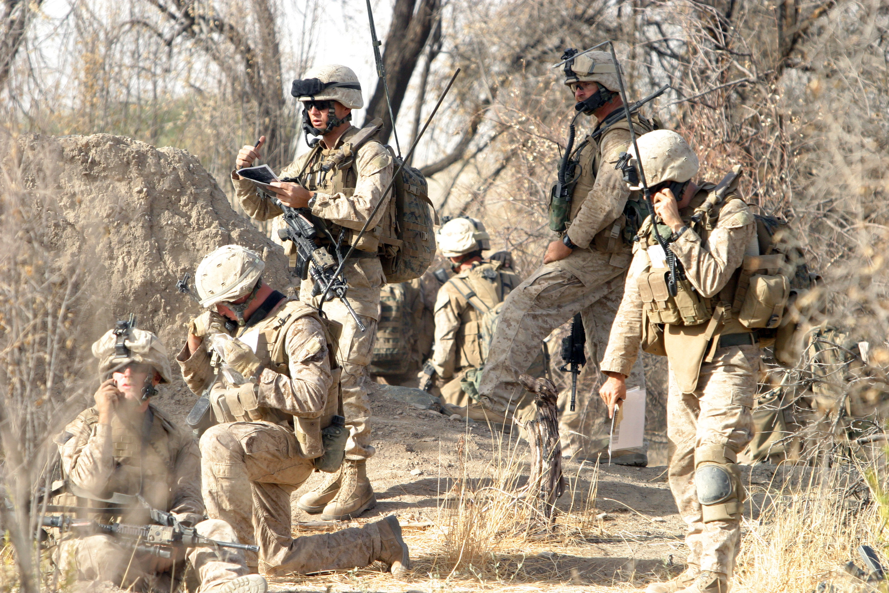 U.S. Marines communicate with their command operation center during a raid on a Taliban headquarters in Afghanistan on Aug. 1, 2008. The Marines are from Foxtrot Company, 2nd Battalion, 7th Marine Regiment. Pictured left to right, top to bottom: 1st Lt Doug Ferreira (Fire Support Team Leader), Captain Ross Schellhaas (Company Commander), LCpl Schultz (Radio Operator), LCpl Branch (Forward Observer), Captain Jon Jordon (Forward Air Controller). DoD photo by Sgt. Freddy G. Cantu, U.S. Marine Corps. (Released)